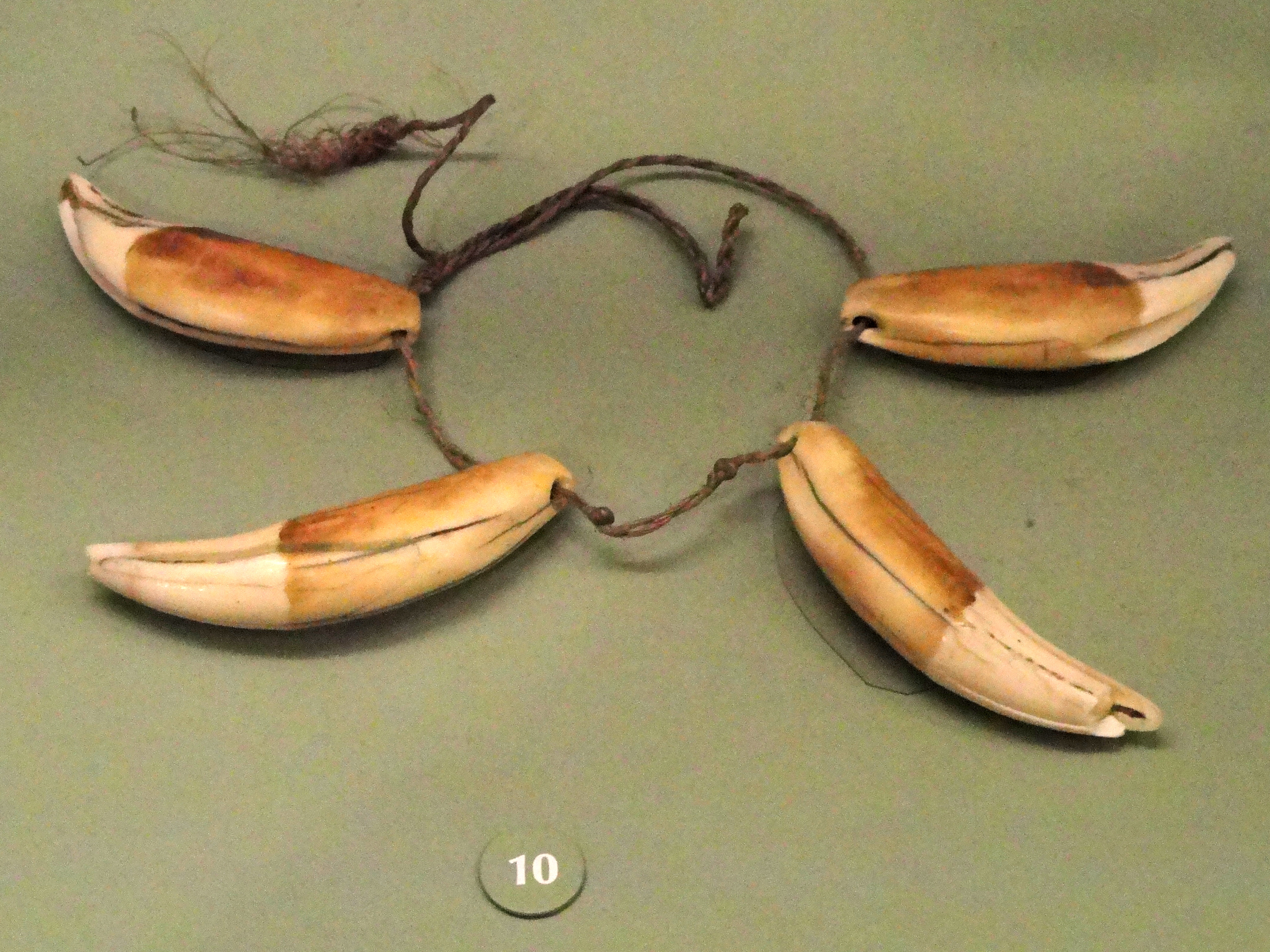 Exhibit in the South American collection of the American Museum of Natural History, Manhattan, New York City, New York, USA.